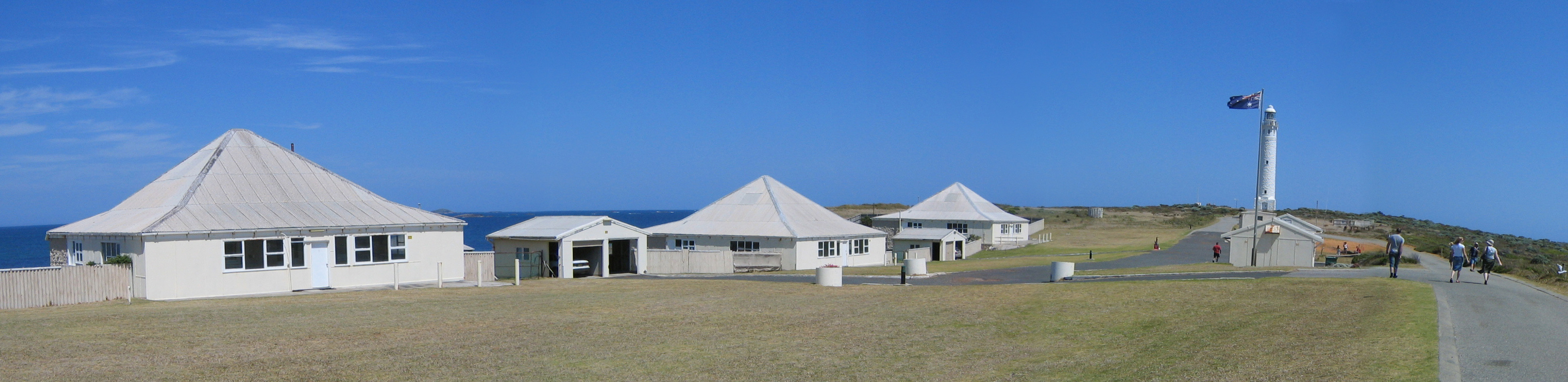 Cape Leeuwin lighthouse and cottages, Western Australia.